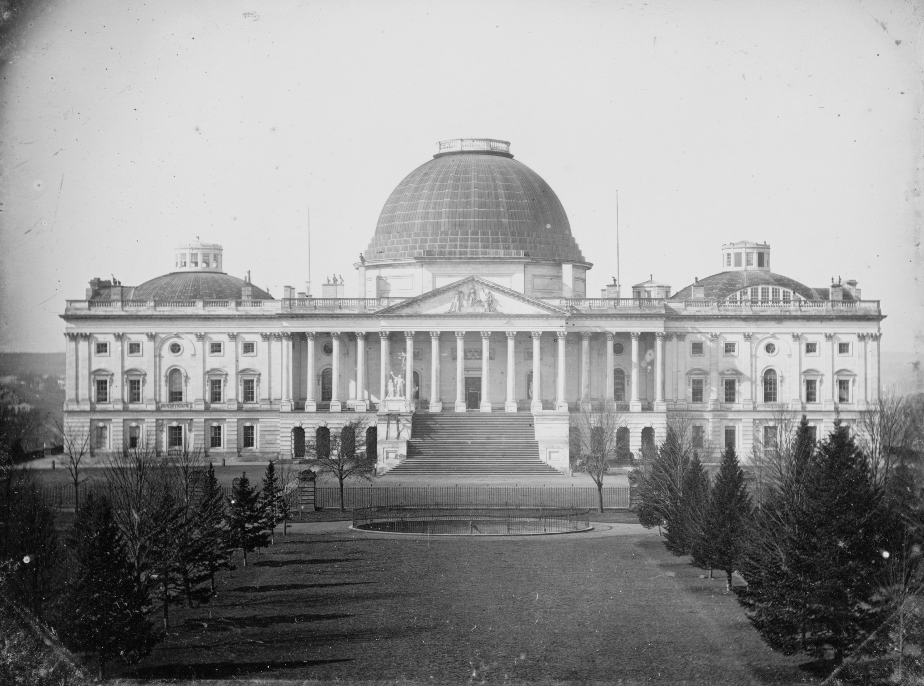 United States Capitol, Washington, D.C., east front elevation. Daguerreotype of original dome.